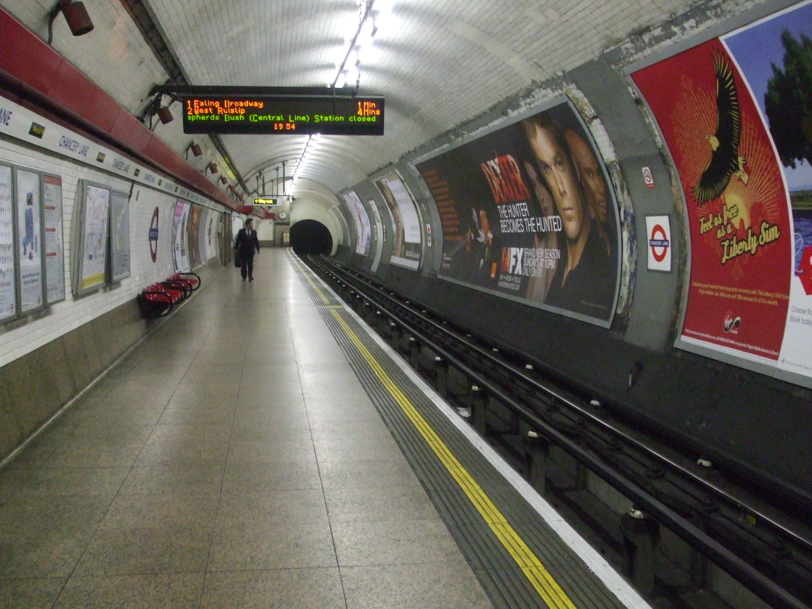 Chancery Lane tube station westbound platform looking east